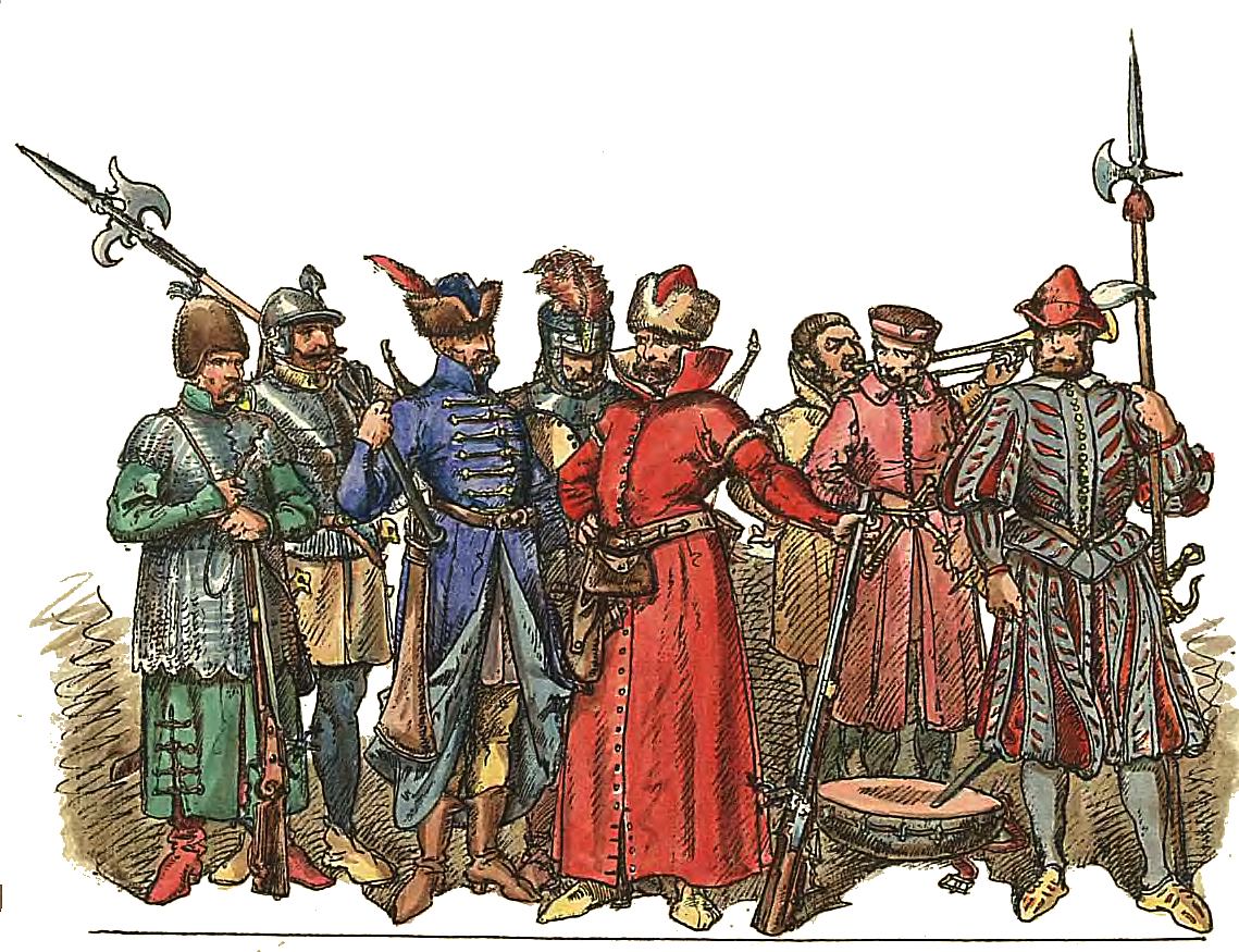 Polish-lithuanian Infantry and dismounted cavalrymen 1548-1572